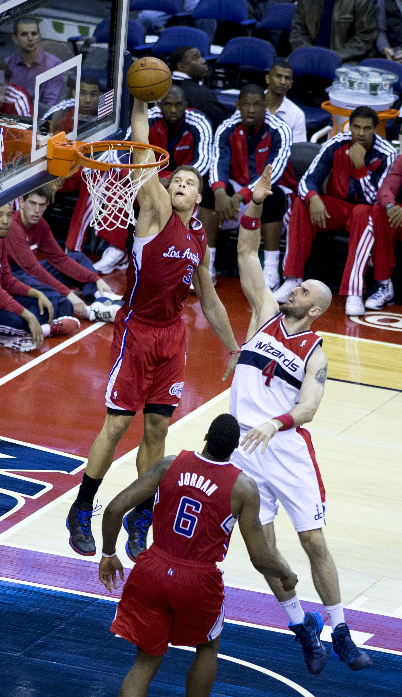 Clippers at Wizards 12/14/13